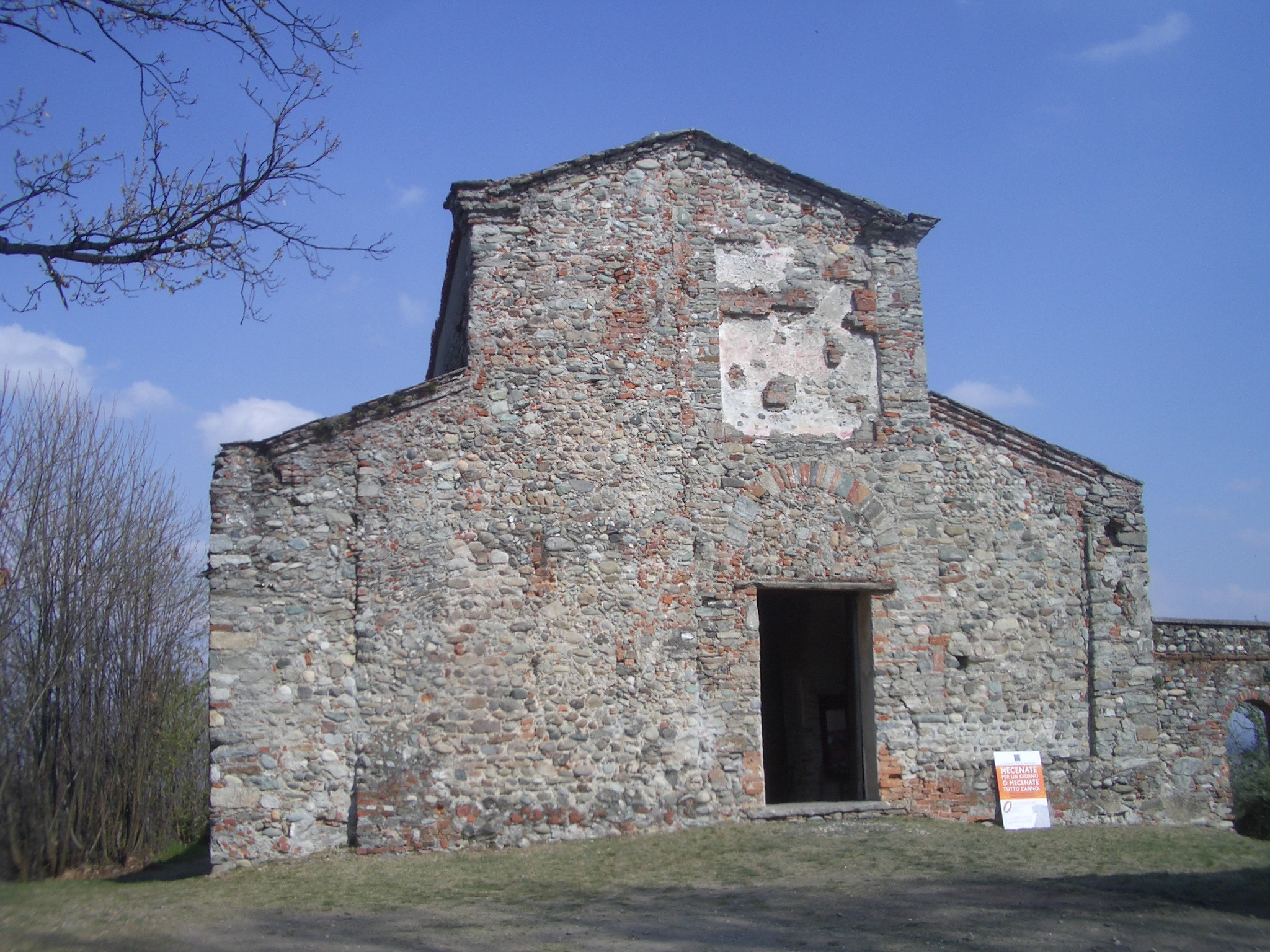 Candia Canavese, Church of Santo Stefano al Monte, XI – XII century, romanesque architecture